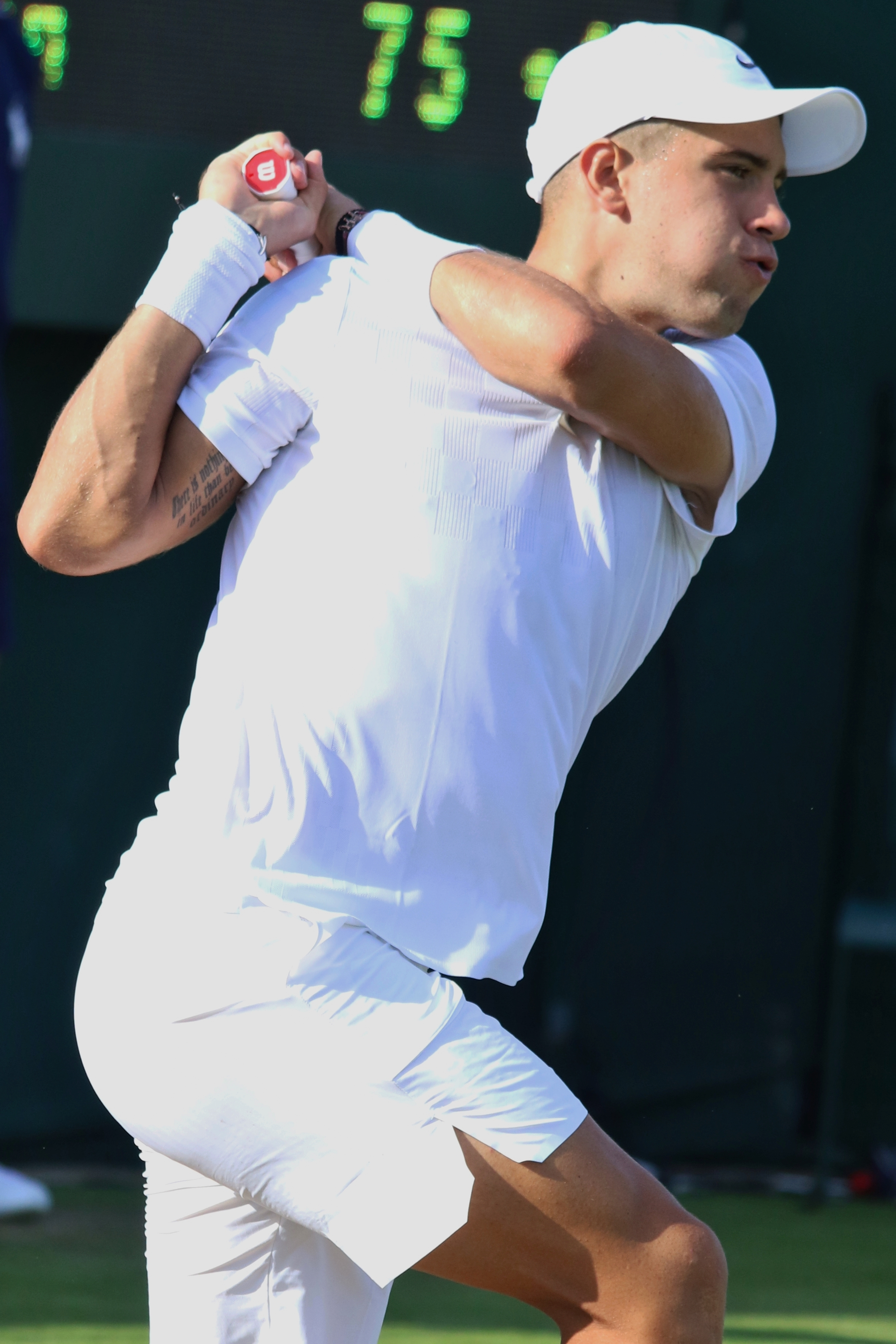 Coric WM17 (10)